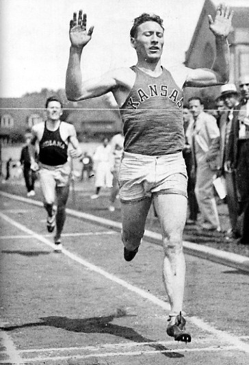 Glenn Cunningham competing for the University of Kansas circa 1933.